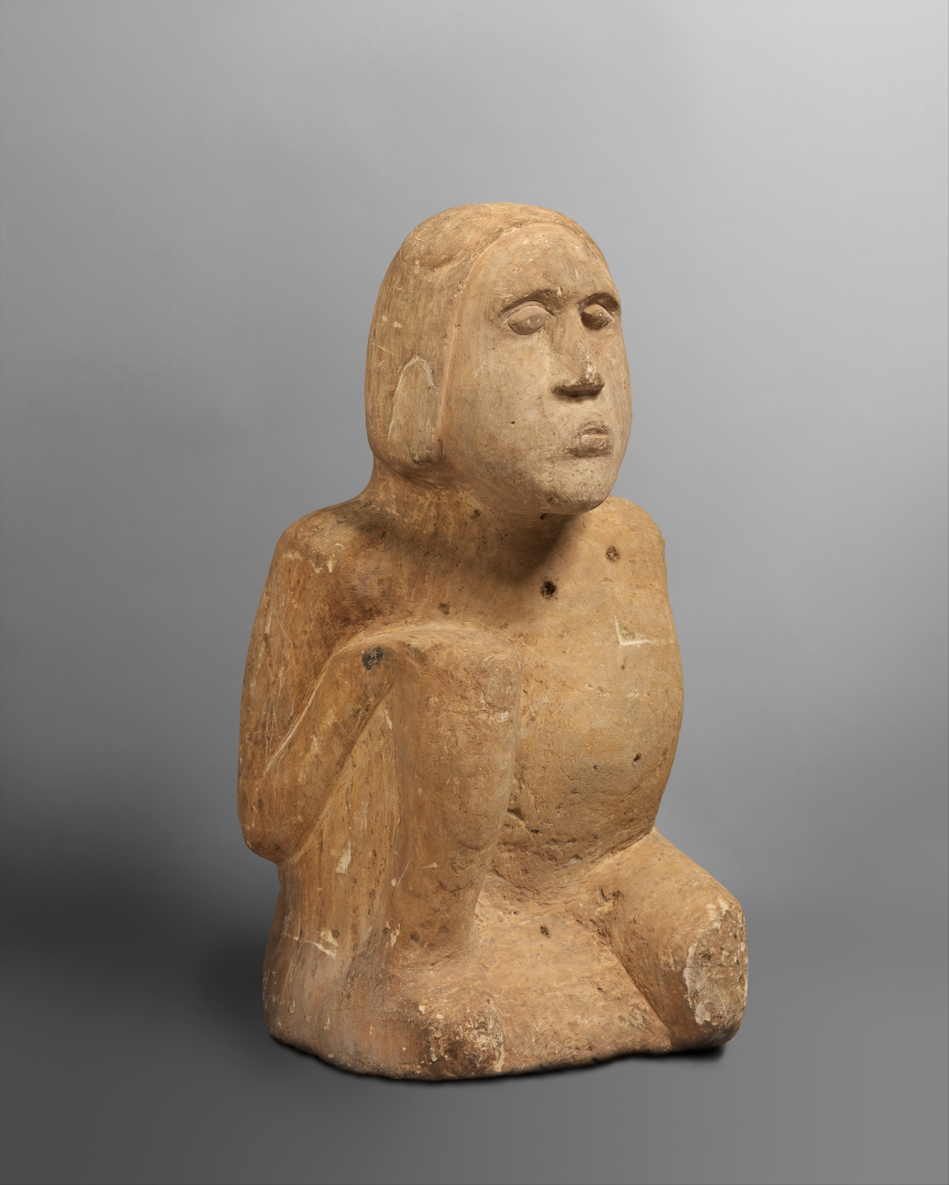 Mississippian culture; Male figure; Stone Sculpture. Discovered at the Link Farm Site located at the confluence of the Duck and Buffalo Rivers in Humphreys County, Tennessee, as part of of a paired male and female set of statues nicknamed "Adam" and "Eve" by the discoverers.[1][2]